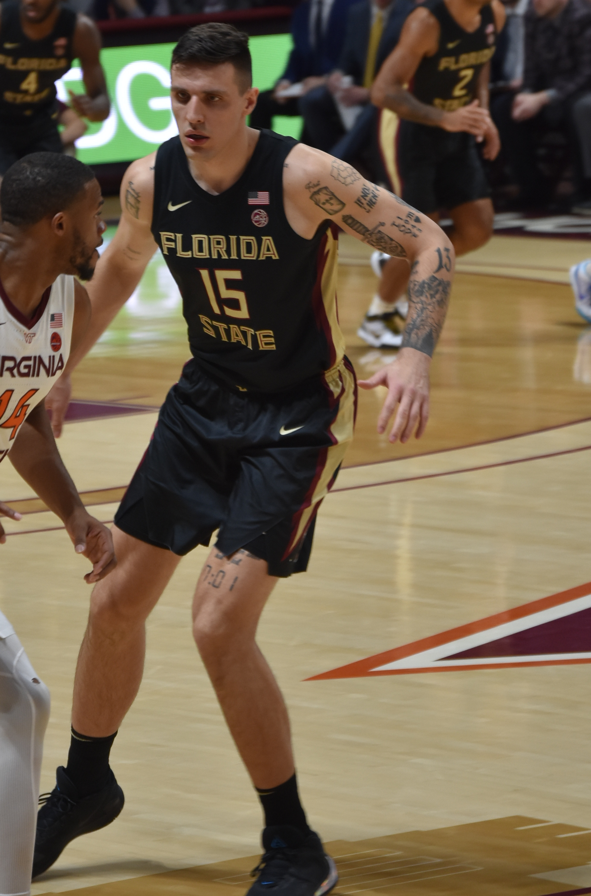 Dominik Olejniczak and P. J. Horne work the court at Cassell Coliseum